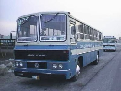 Picture Of Ashok Leyland bus.